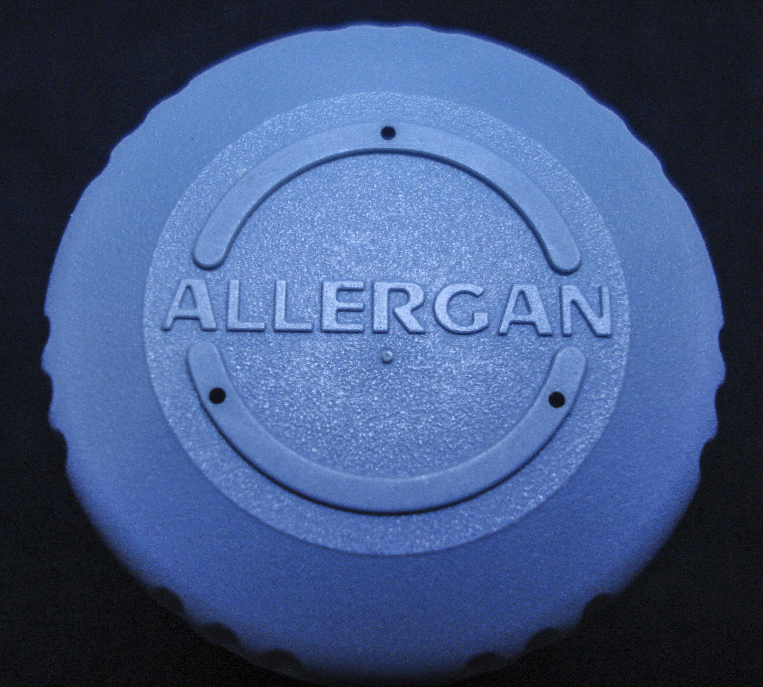 Cover of a container for contact lenses.